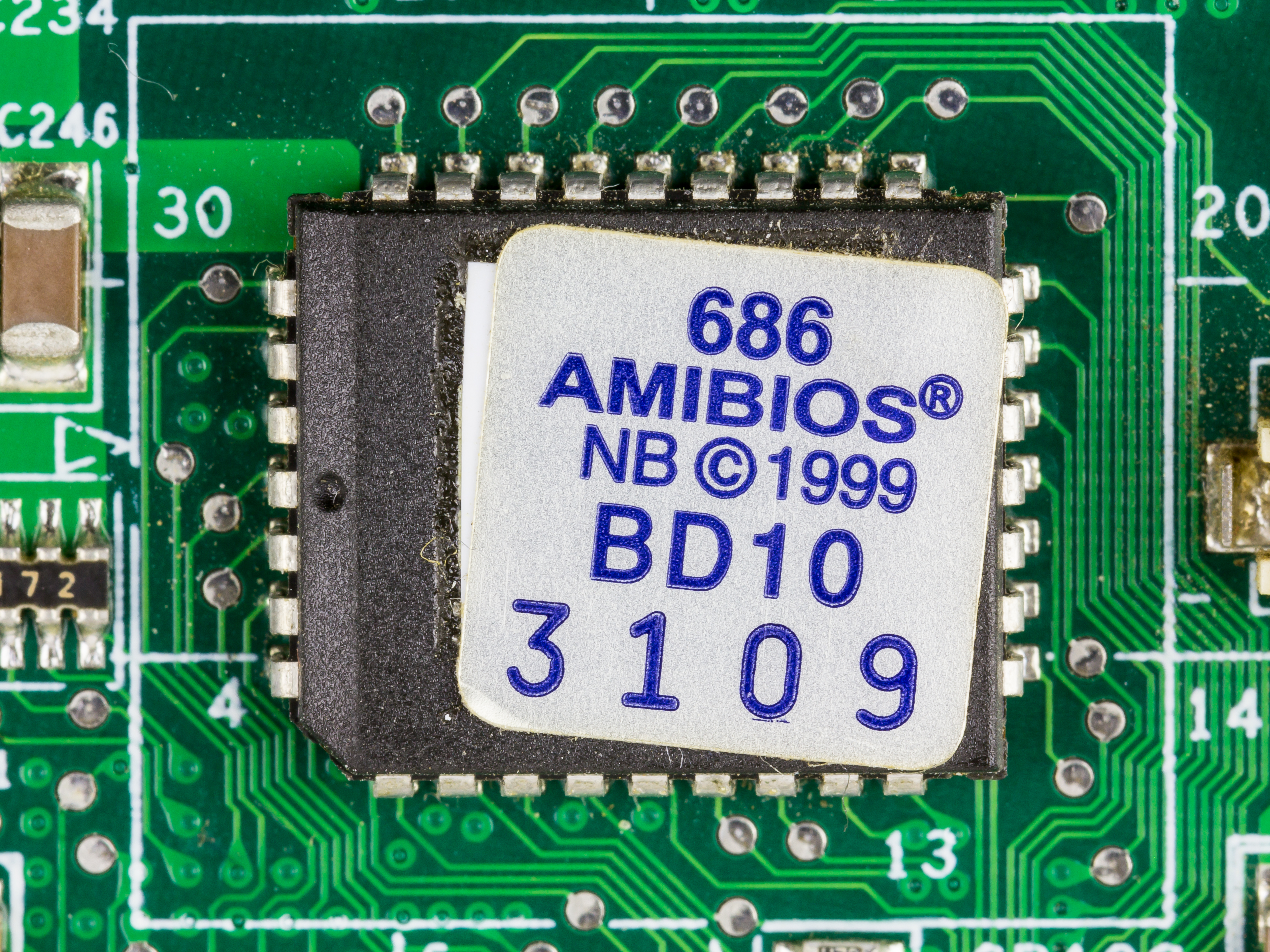 Yakumo Notebook 536S - AMIBIOS